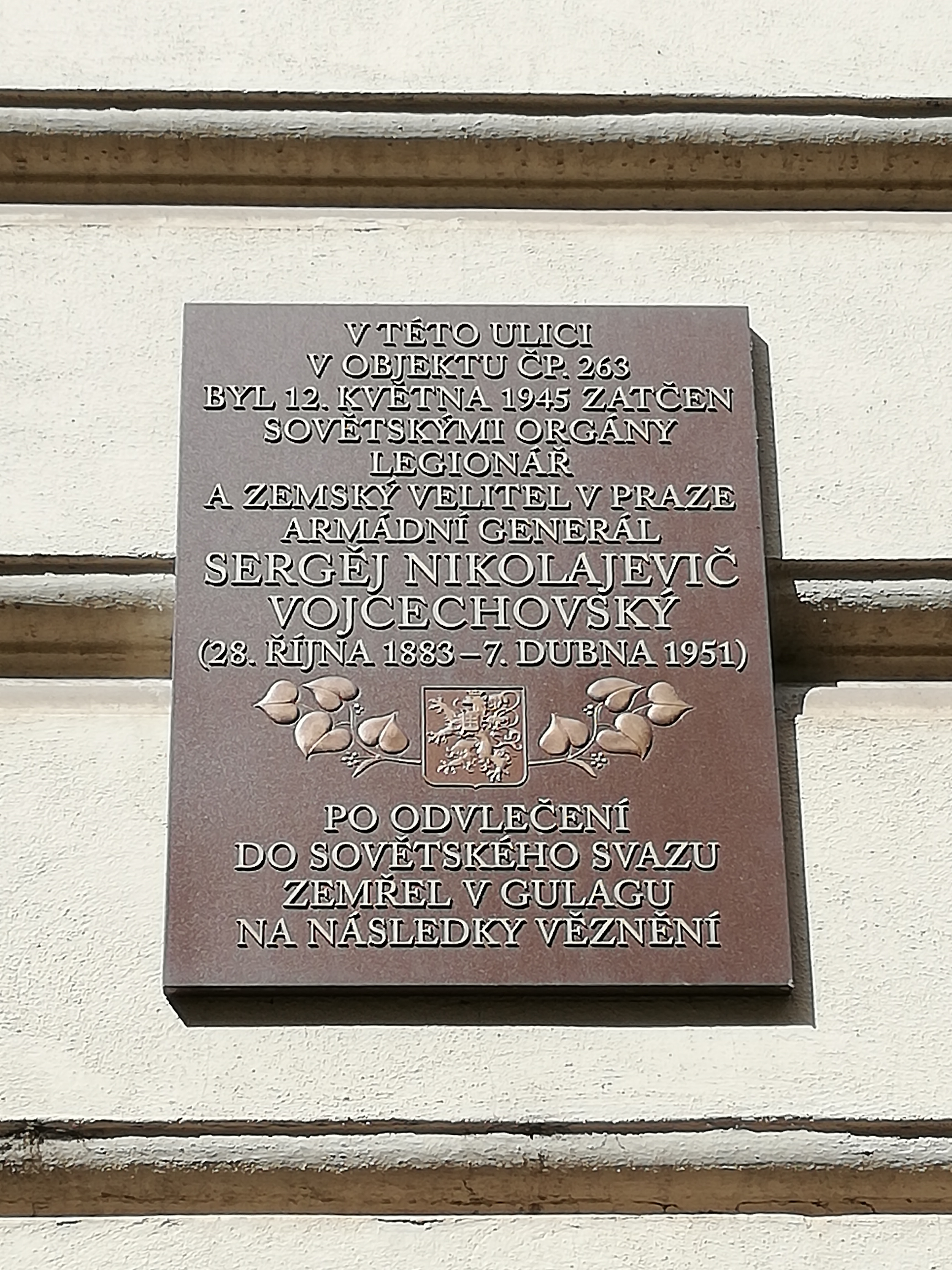 Commemorative plaque dedicated to Sergej Vojcechovský (* 28 October 1883, Vitebsk - 7 April 1951, Ozerlag) in Prague, on Konviktska Street, at the building of the Secondary Technical School of Mechanical Engineering. The plaque should to be located on the neighboring building (at the address: Konviktská 263/5; 110 00 Prague 1 - Old Town), which used to be the military headquarters, but currently (2019) in this house is the multi-star hotel (Residence Bologna)